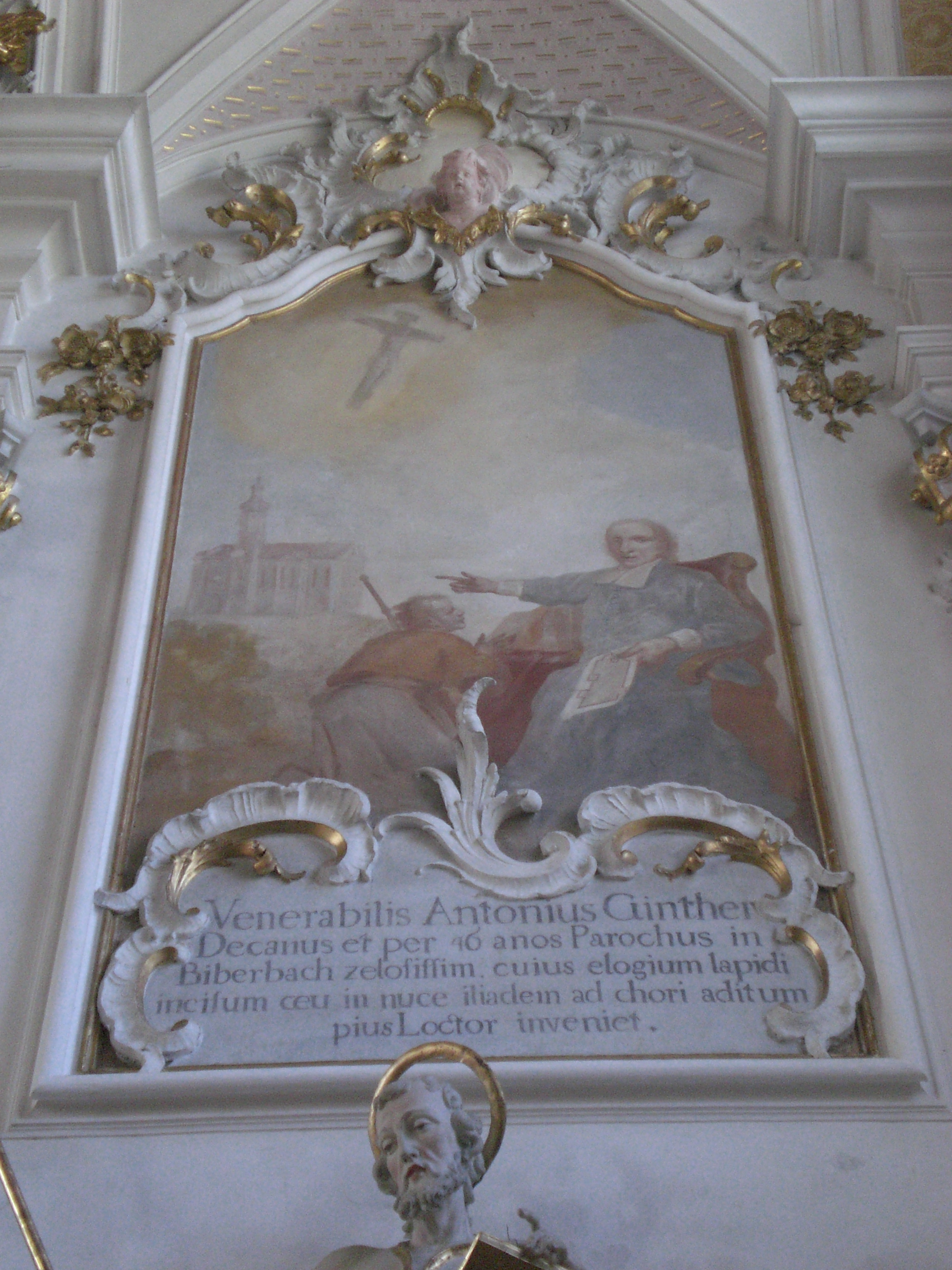 Anton Ginther points at the pilgrimage church of Biberbach (Bavaria).